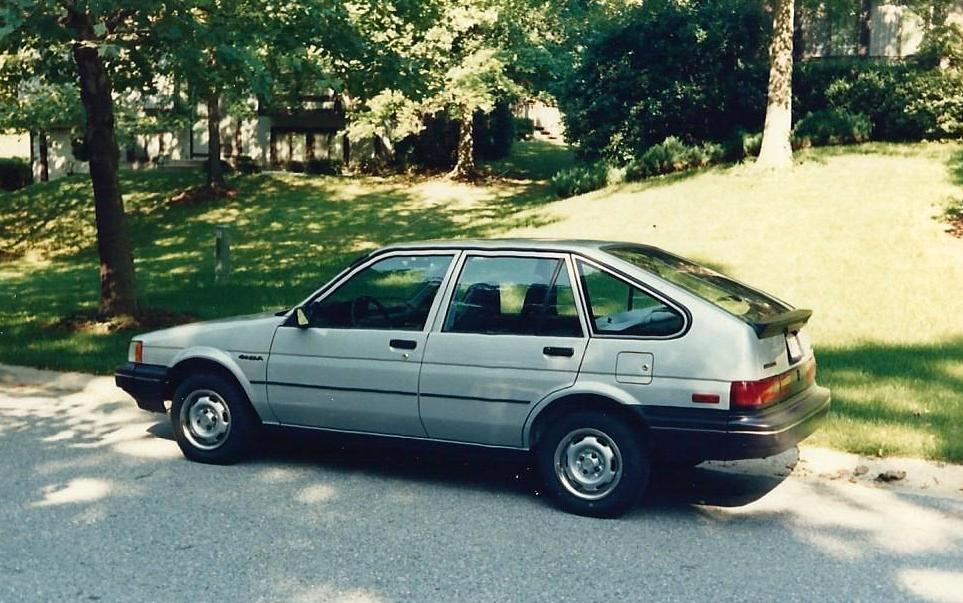 Cars I Have Owned: 1988 Chevrolet Nova Hatchback Pictured in 1988, the Exact Same Car Was Sold as a Toyota Corolla, Total Purchase Price of the Nova Was $8,736